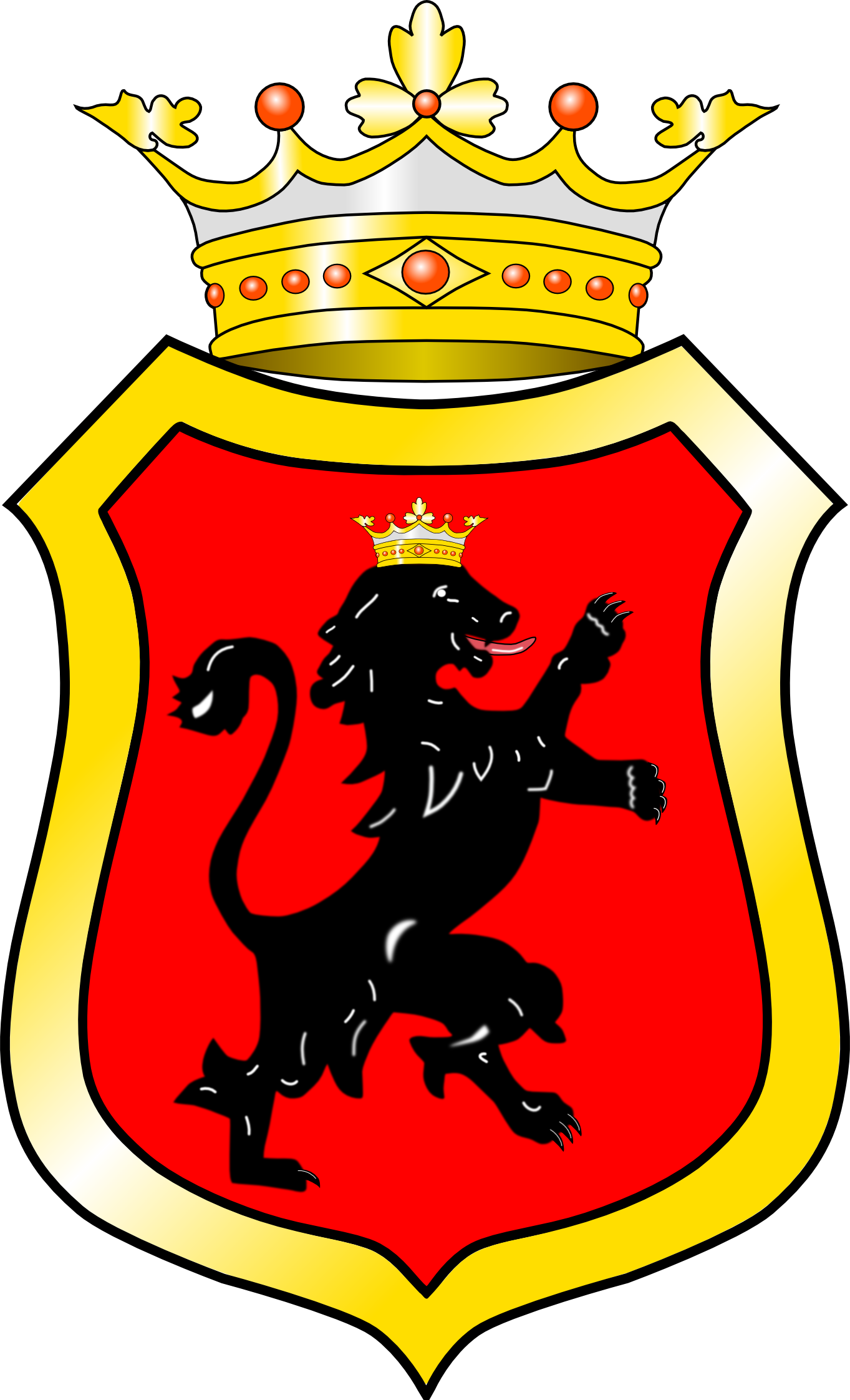 Coat of Arms of Papenburg